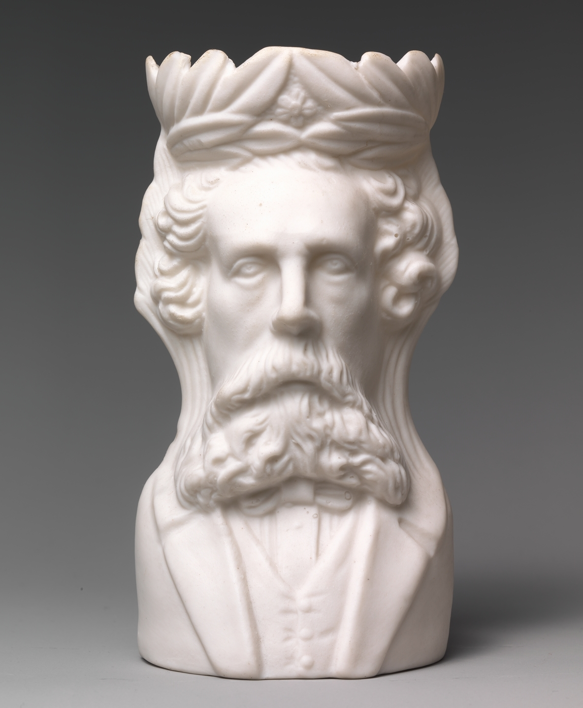 American; Spill vase; Ceramics